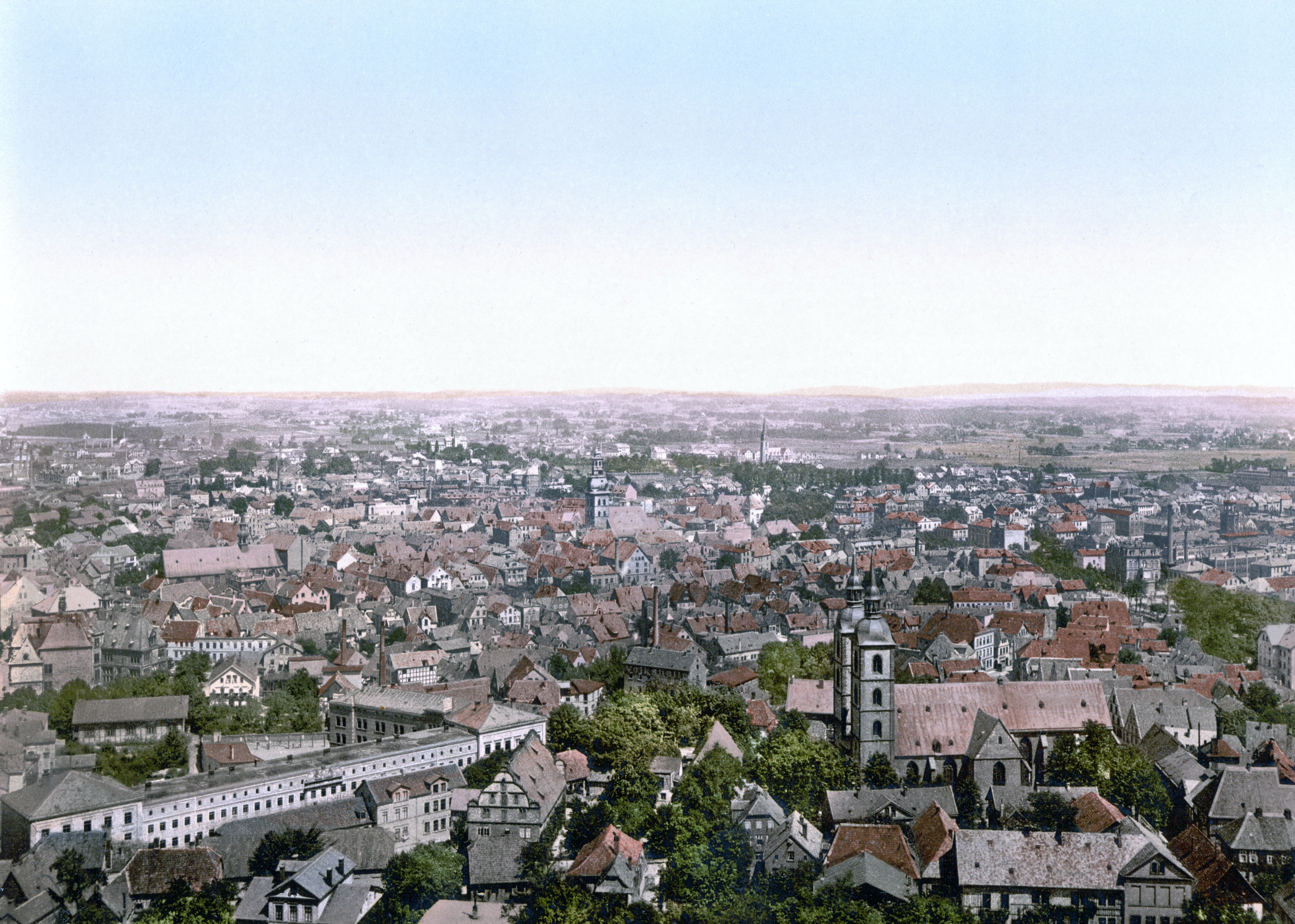 Bielefeld at 1895